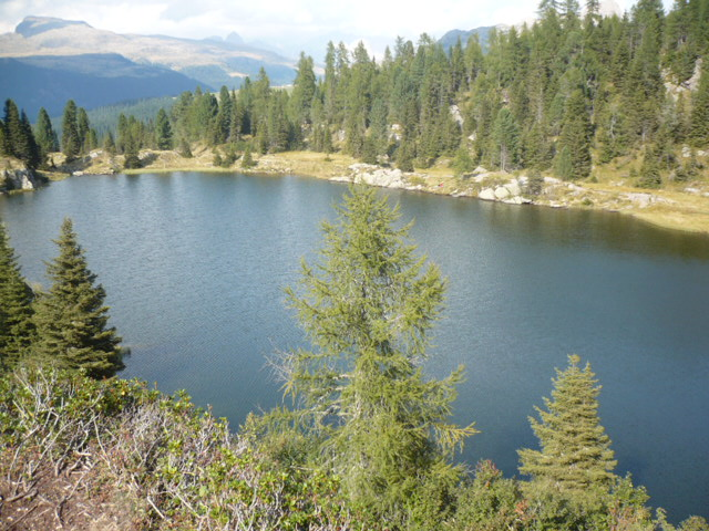 The lower of the two lakes called Colbricon Lakes in early september. In the background, in left, the summit of Bocche.